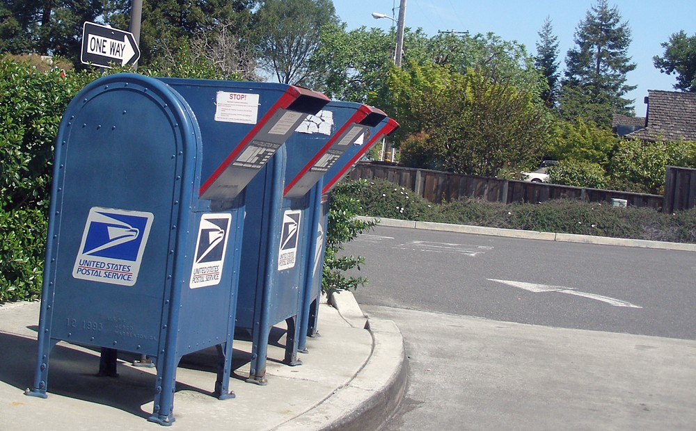 A drive-through lane at a post office operated by the United States Postal Service in Los Altos.